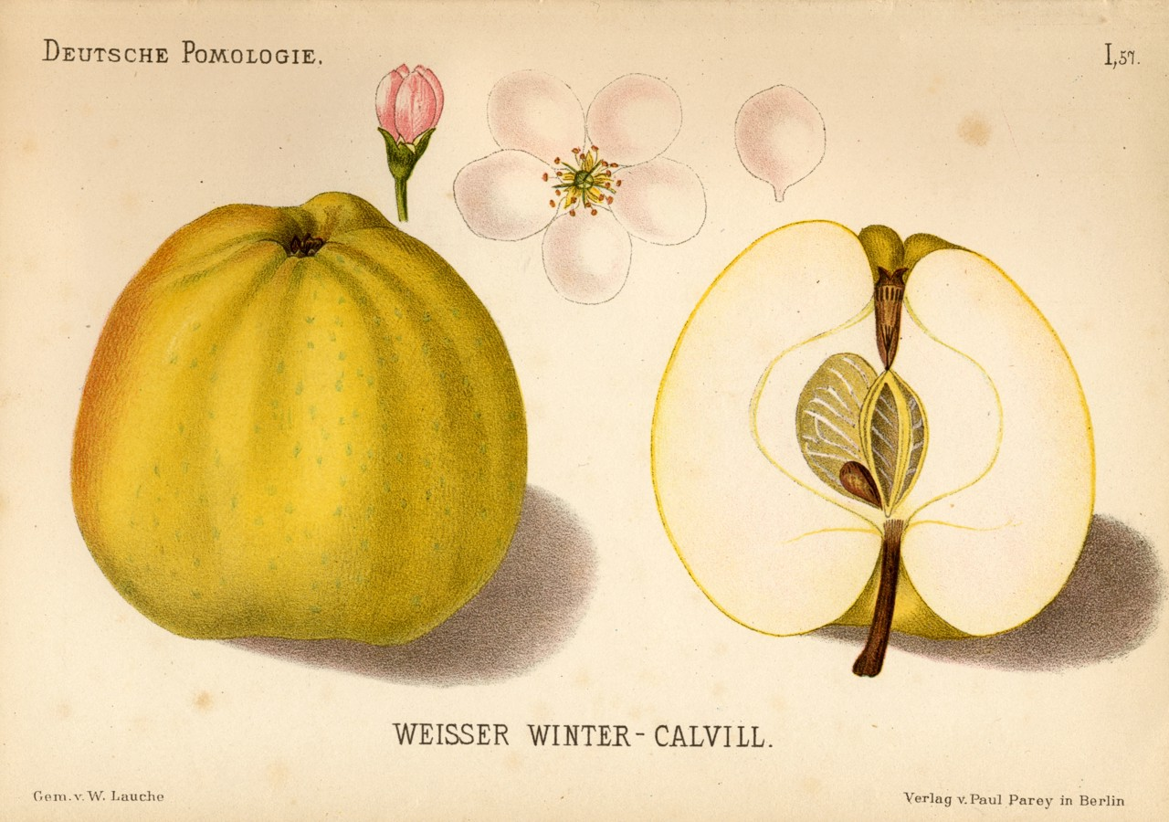 Illustration 57 from Deutsche Pomologie - Aepfel Apple cultivar shown: Weisser Winter Calvill